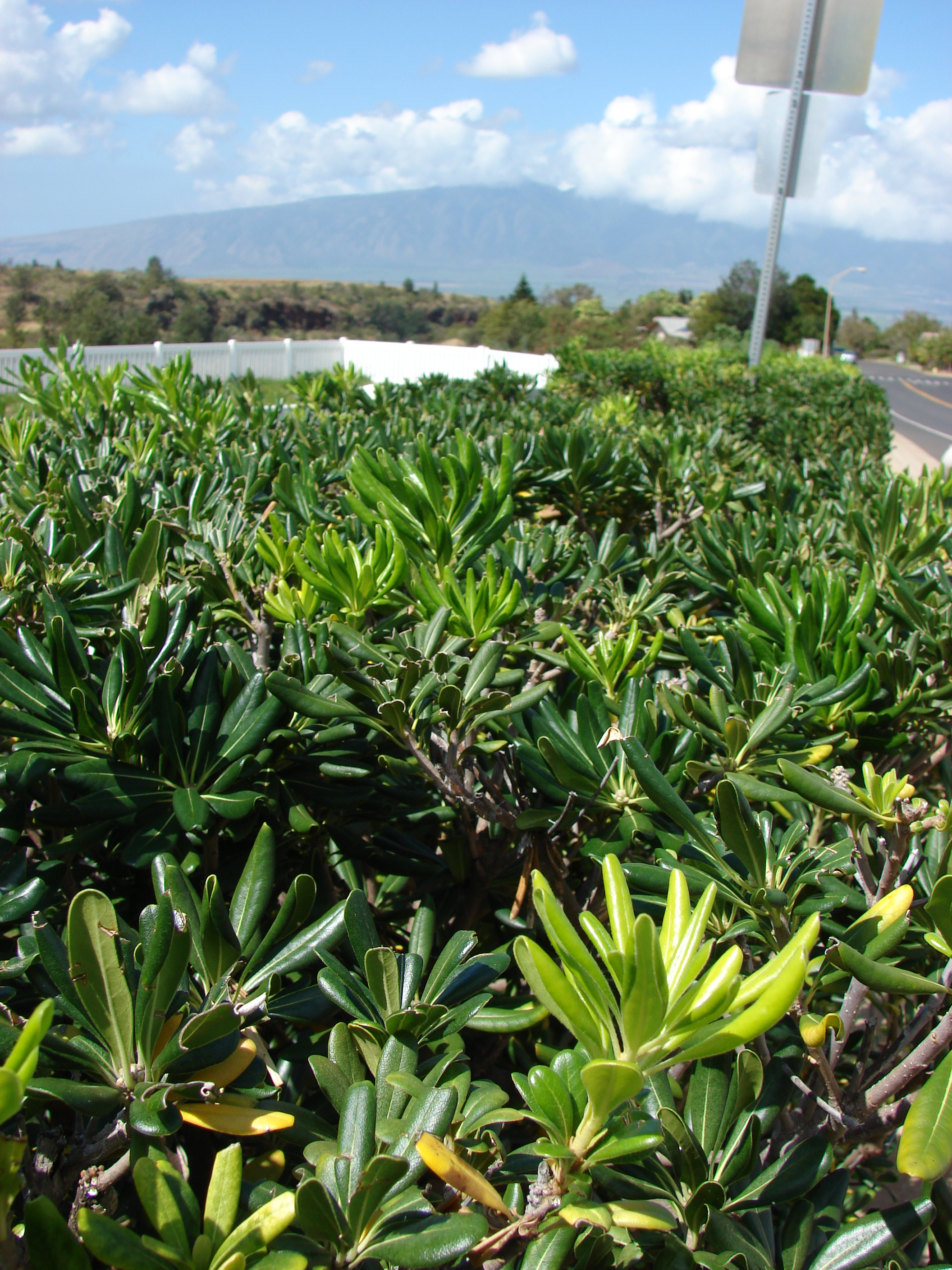 Pittosporum tobira (habit). Location: Maui, Pukalani